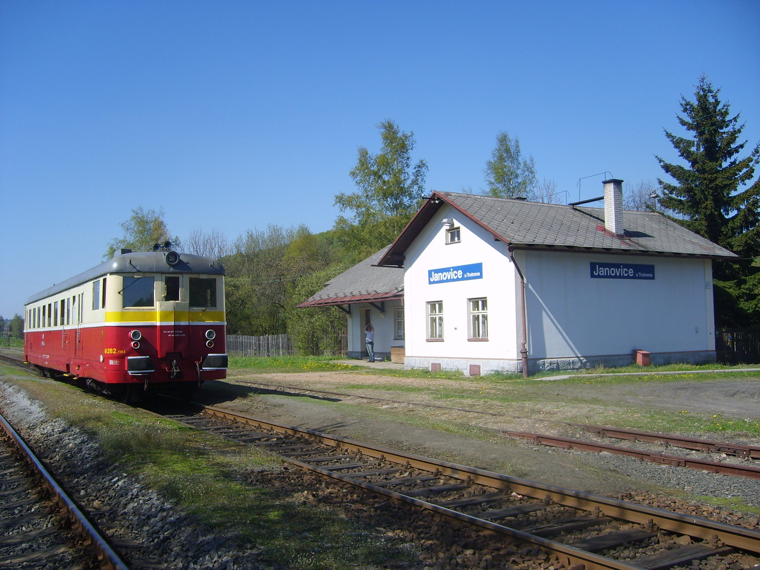 Train station Janovice u Trutnova (in Jívka village, Czech Republic) with a diesel railcar M262.1183 of KŽC Doprava.